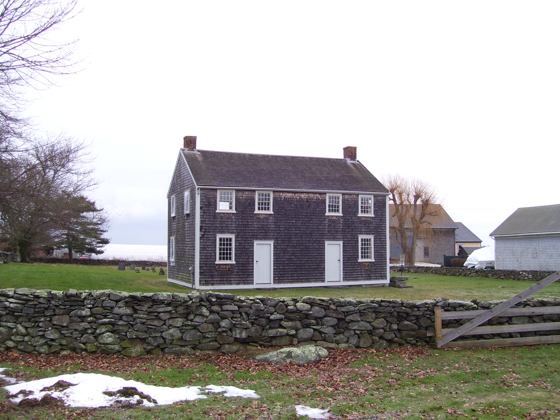 My 2009 photo of the Friends Meeting House and Cemetery in Little Compton, Rhode Island, USA.